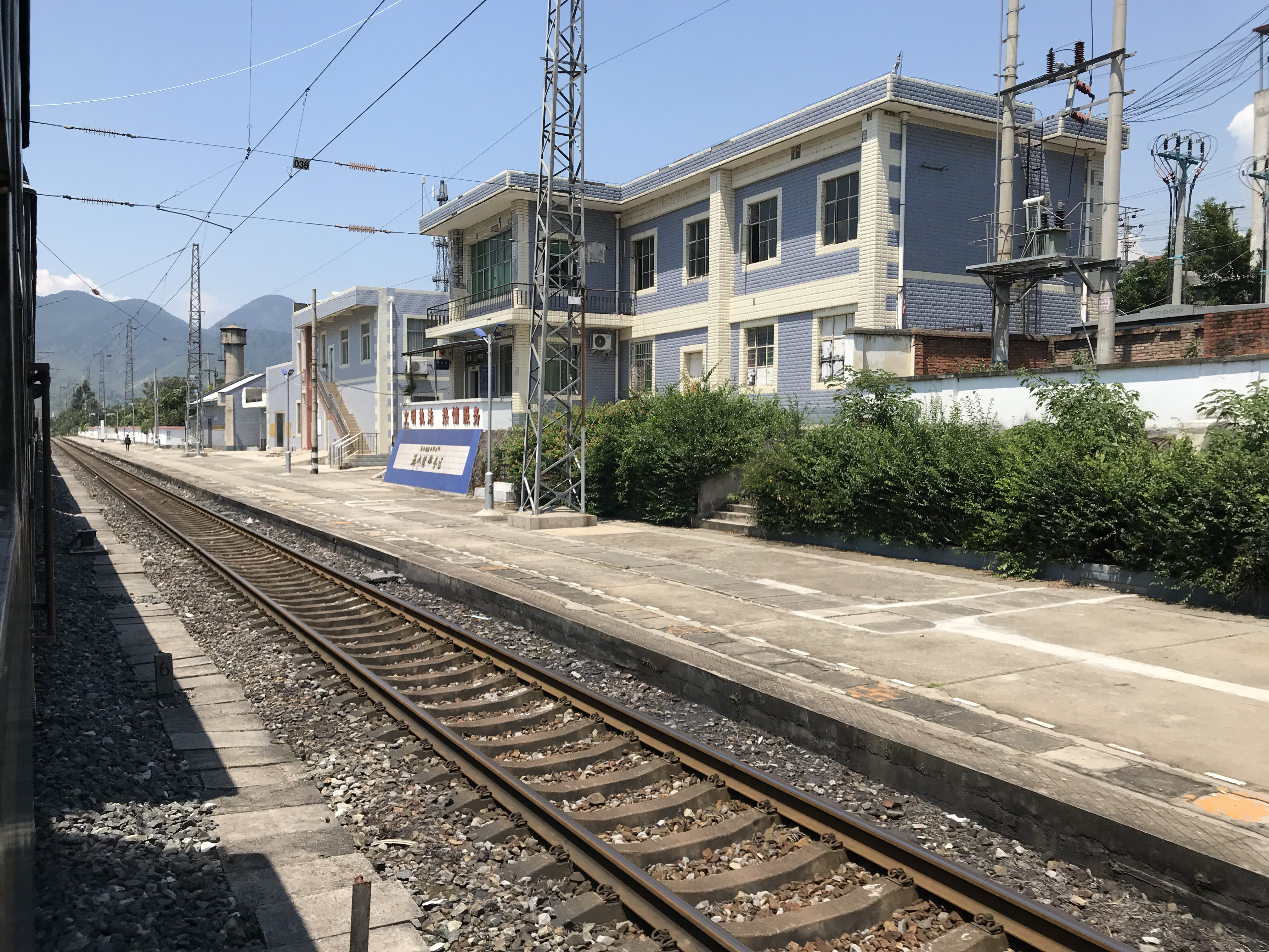 201908 Station Building of Manshuiwan